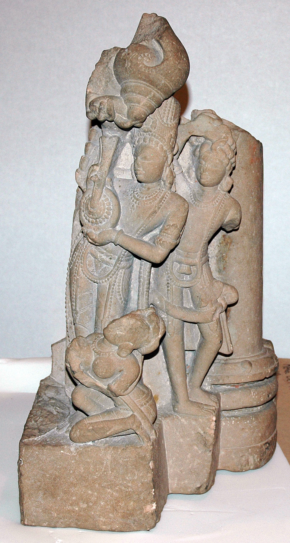 Creation Date: 10th century-11th century Display Dimensions: 23 11/16 in. x 12 1/8 in. x 13 in. (60.17 cm x 30.8 cm x 33.02 cm) Credit Line: Edwin Binney 3rd Collection Accession Number: 1990.1493 Collection: The San Diego Museum of Art